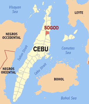 Map of Cebu showing the location of Sogod